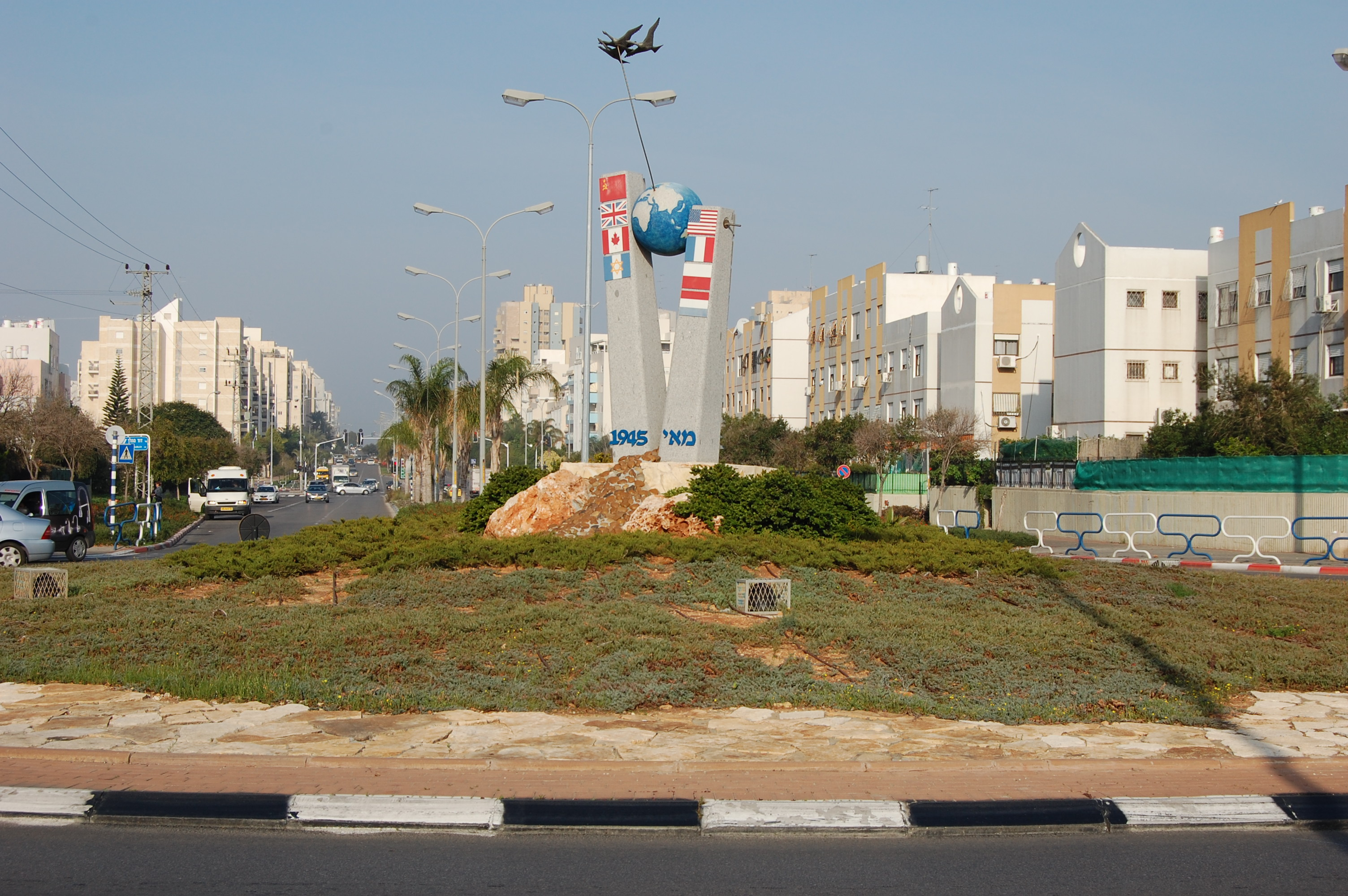 Ashdod, Geography of Israel